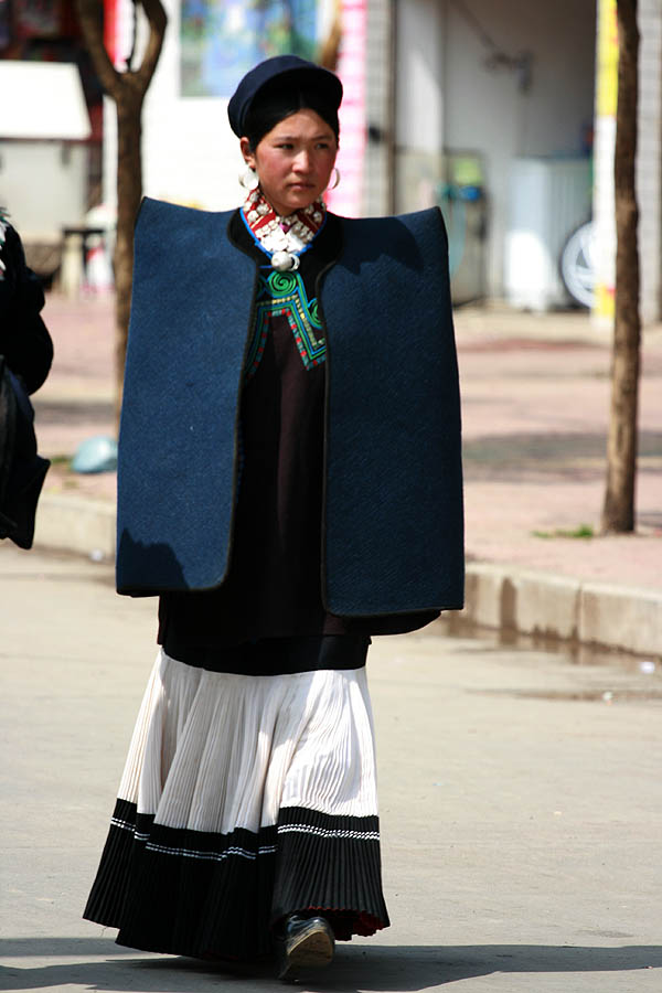 The pleated skirt and garment of Chinese ethnic Yi at Butuo County, Southern Sichuan Province, China.